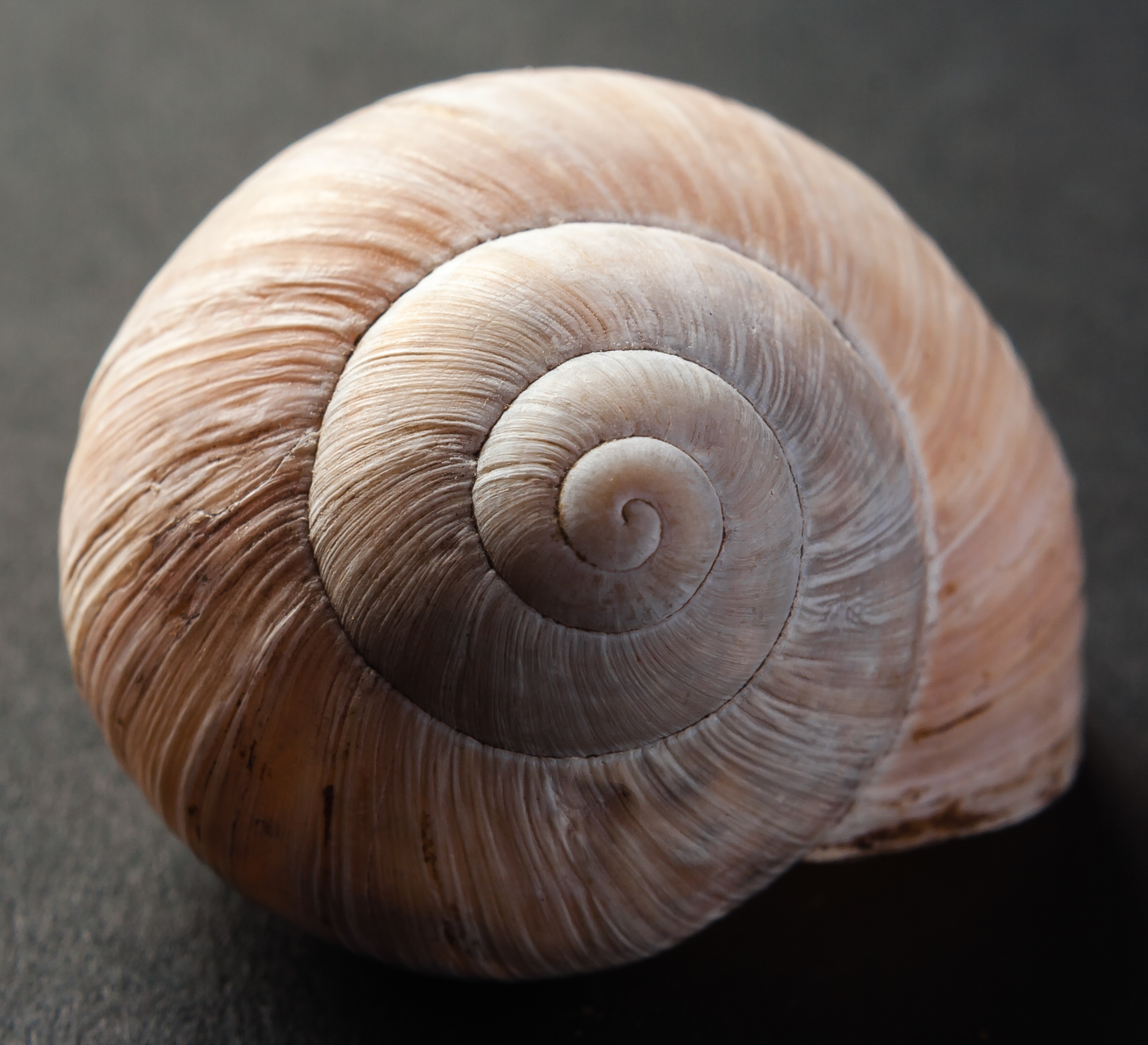 Housing of a snail